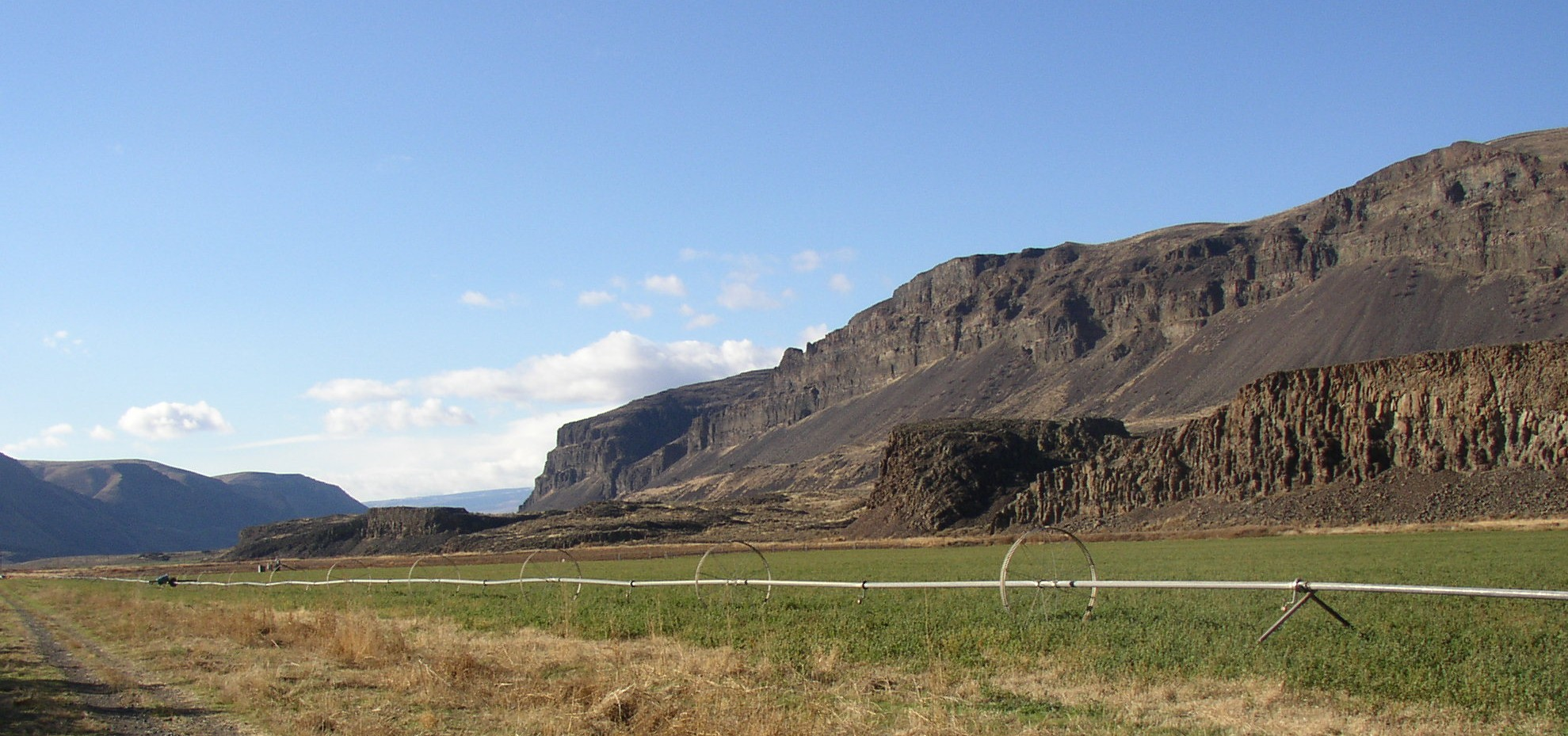 Moses Coulee photo taken in November, 2006. Photo taken by uploader. All rights released. Williamborg 14:42, 18 November 2006 (UTC)